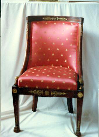 I produced this photo Summary I produced this photo